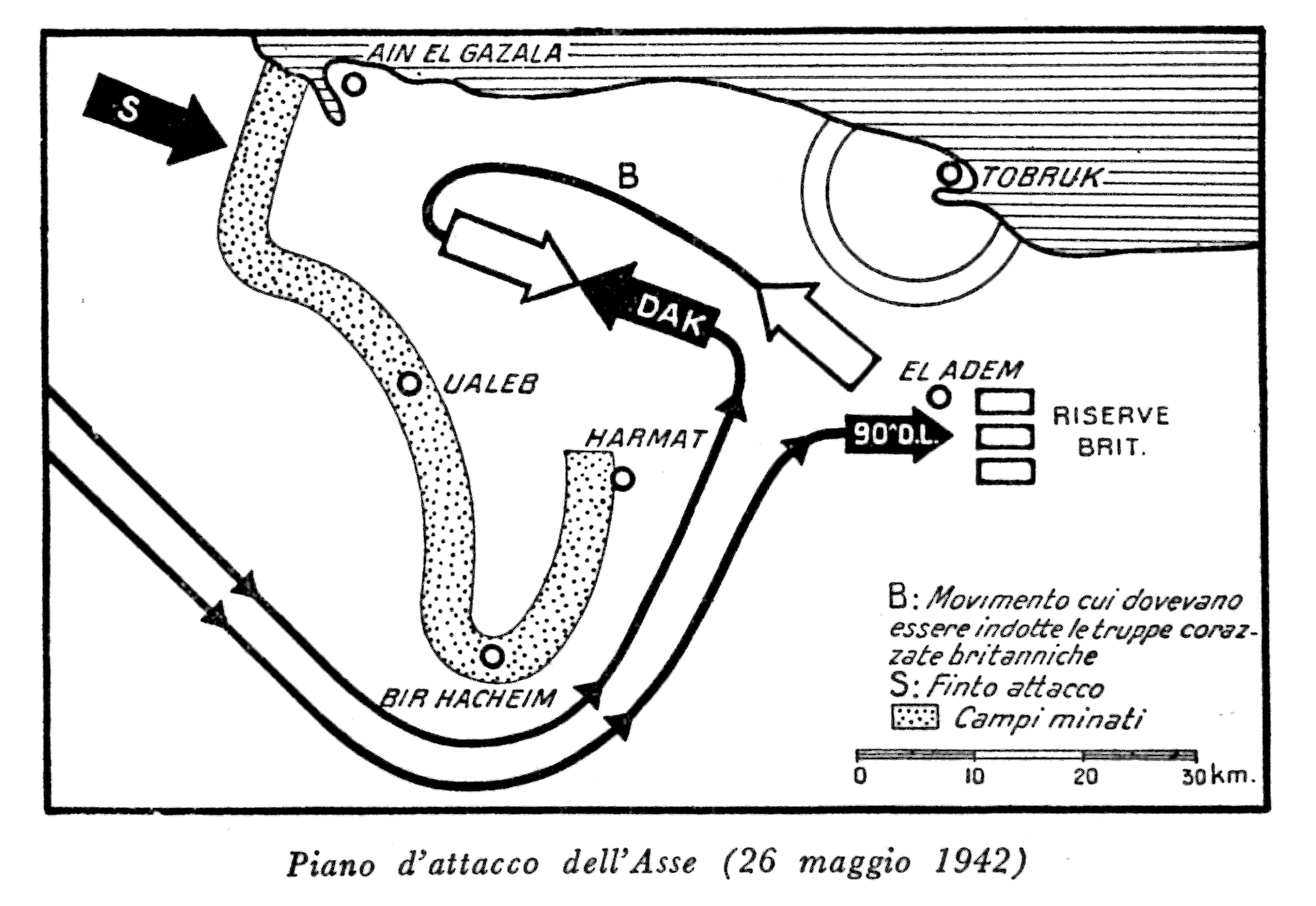 Map of the Gazala line and Operation Venice during German-Italian Attack on 26-27 May 1942